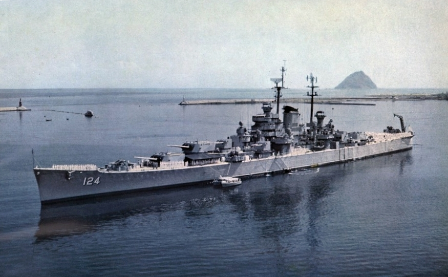 The U.S. Navy heavy cruiser USS Rochester (CA-124) at anchor in 1956. Rochester was deployed to the Western Pacific from 29 May to 16 December 1956.